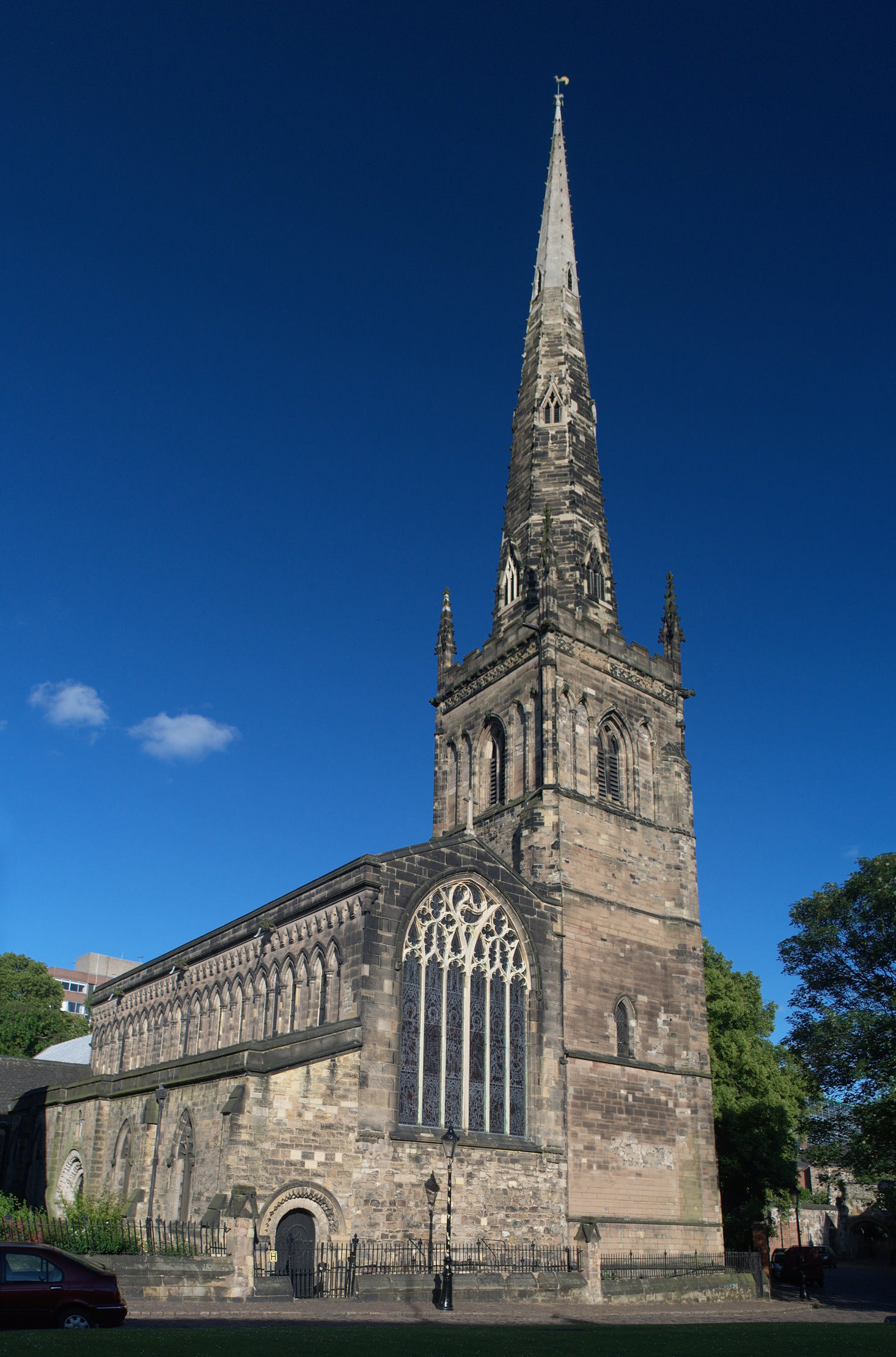 Church of St Mary de Castro, Leicester, seen from Castle Yard